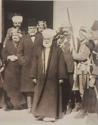 Sherif Hussein bin Ali Al-Hashimi in Jerusalem with the city's Mayor Musa Kazim Pasha al-Husayni (left behind).